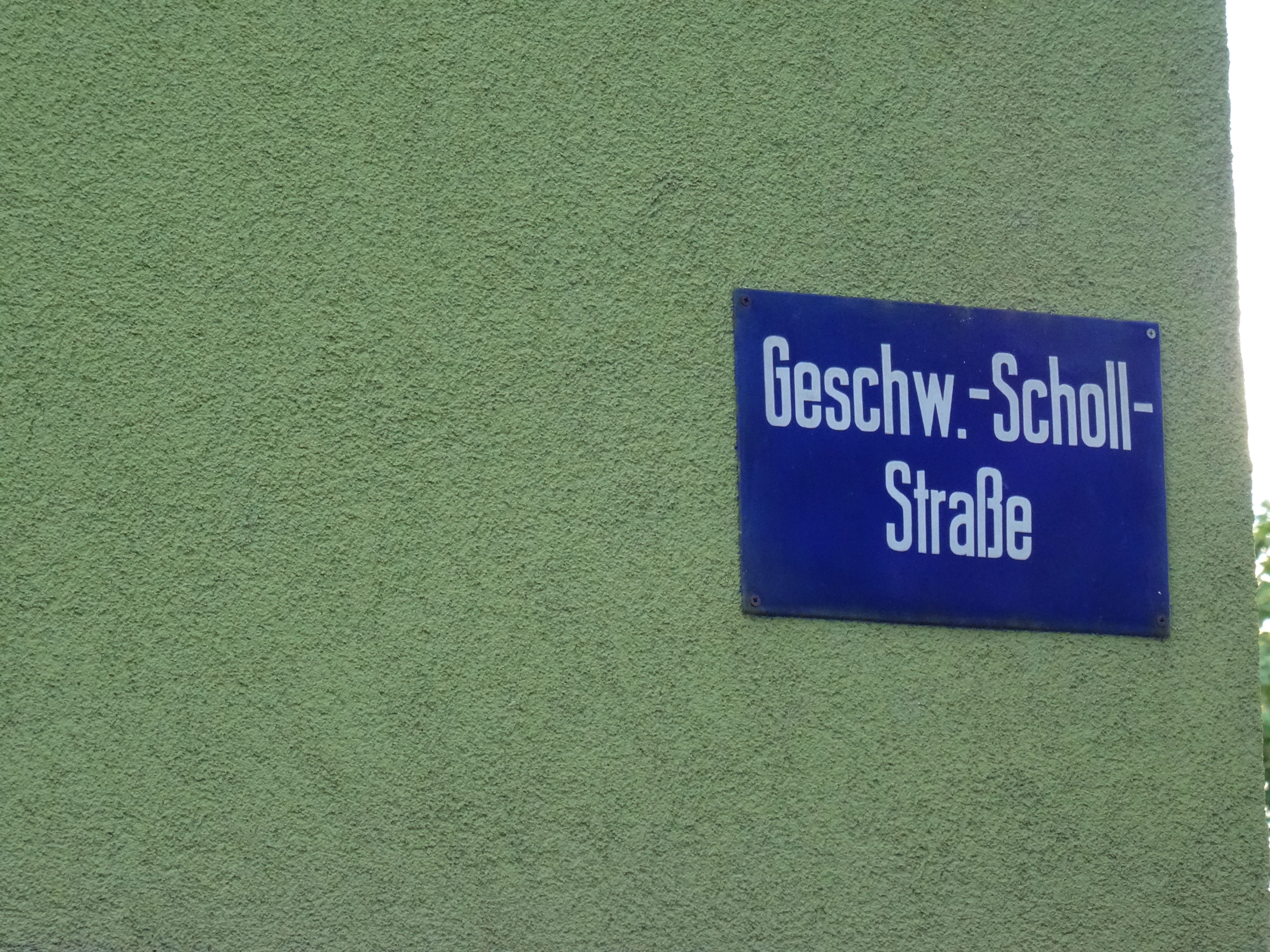 Geschwister Scholl Straße, Pirna